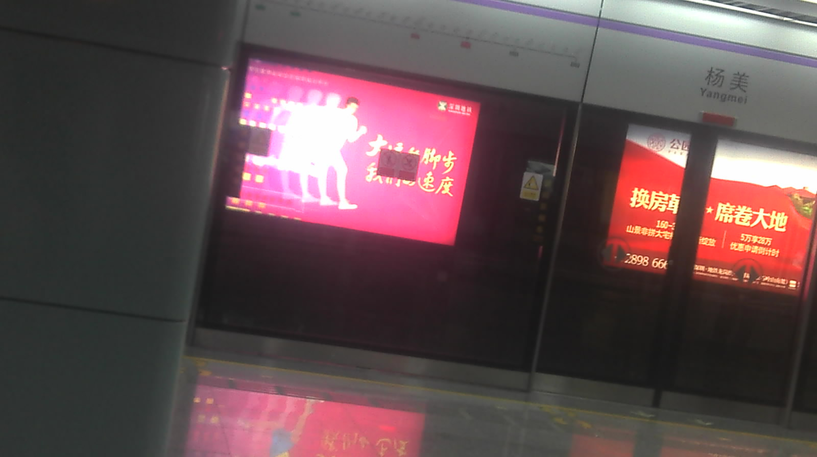 This photo was taken as September 30, 2011.